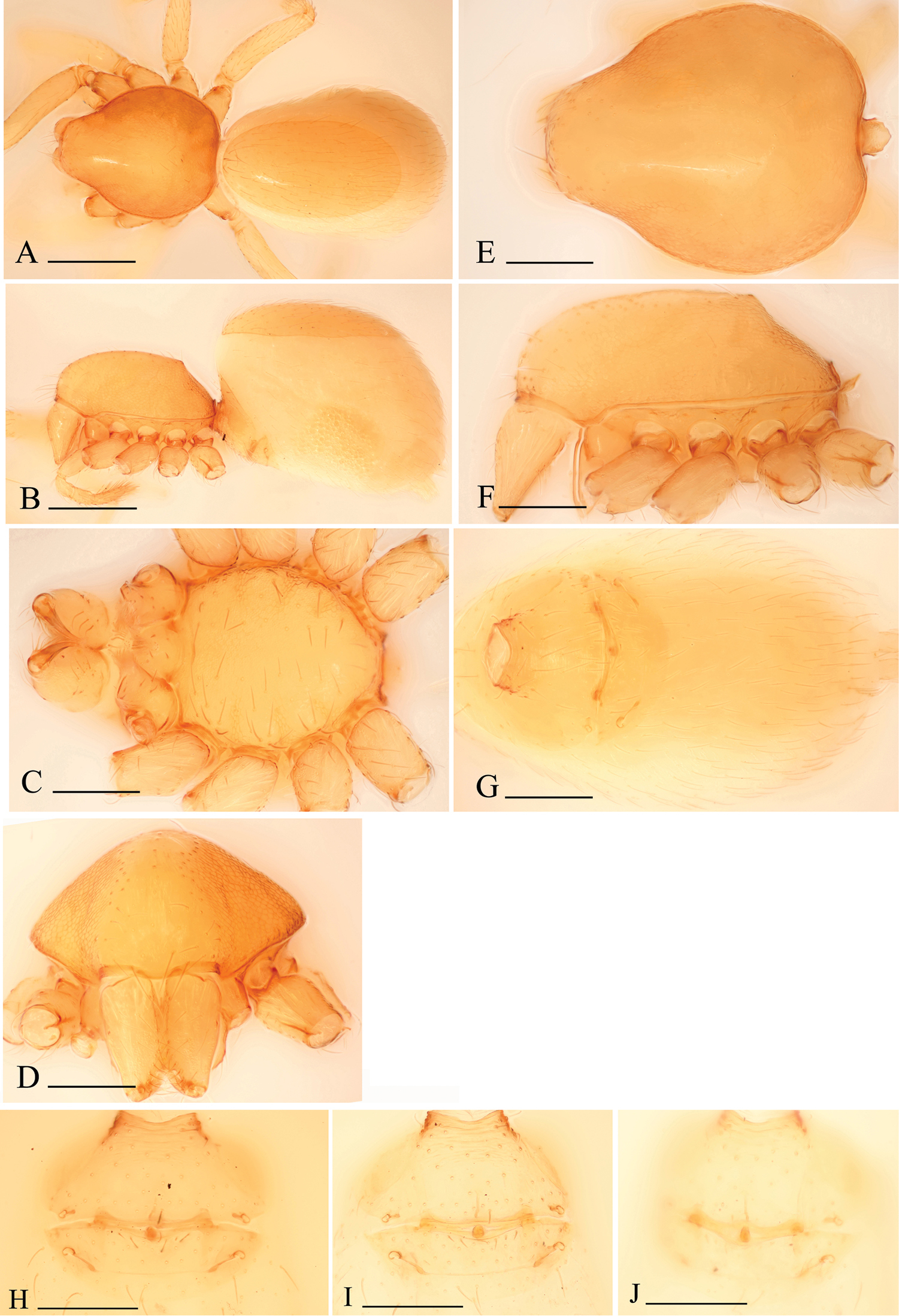 Bannana crassispina female. A, B Habitus, dorsal and lateral views C–F Prosoma, ventral, anterior, dorsal and lateral views G Abdomen, ventral view H–J Genital area, ventral (H, I) and dorsal (J) views, I, J cleared in lactic acid. Scales bar: A, B = 0.4 mm; C–J = 0.2 mm.